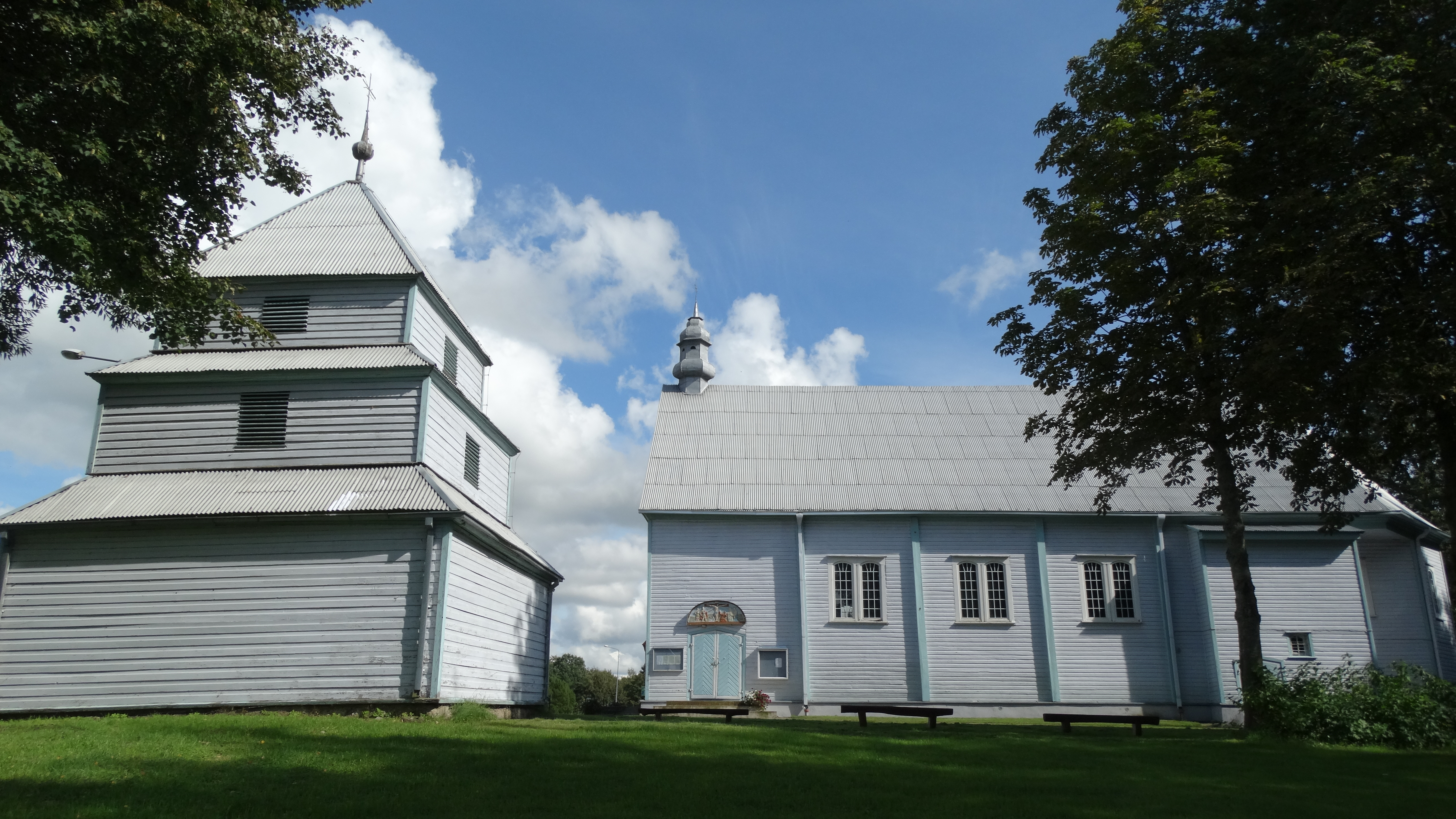 St. Michael Archangel church in Rumšiškės, Kaišiadorys District, Lithuania